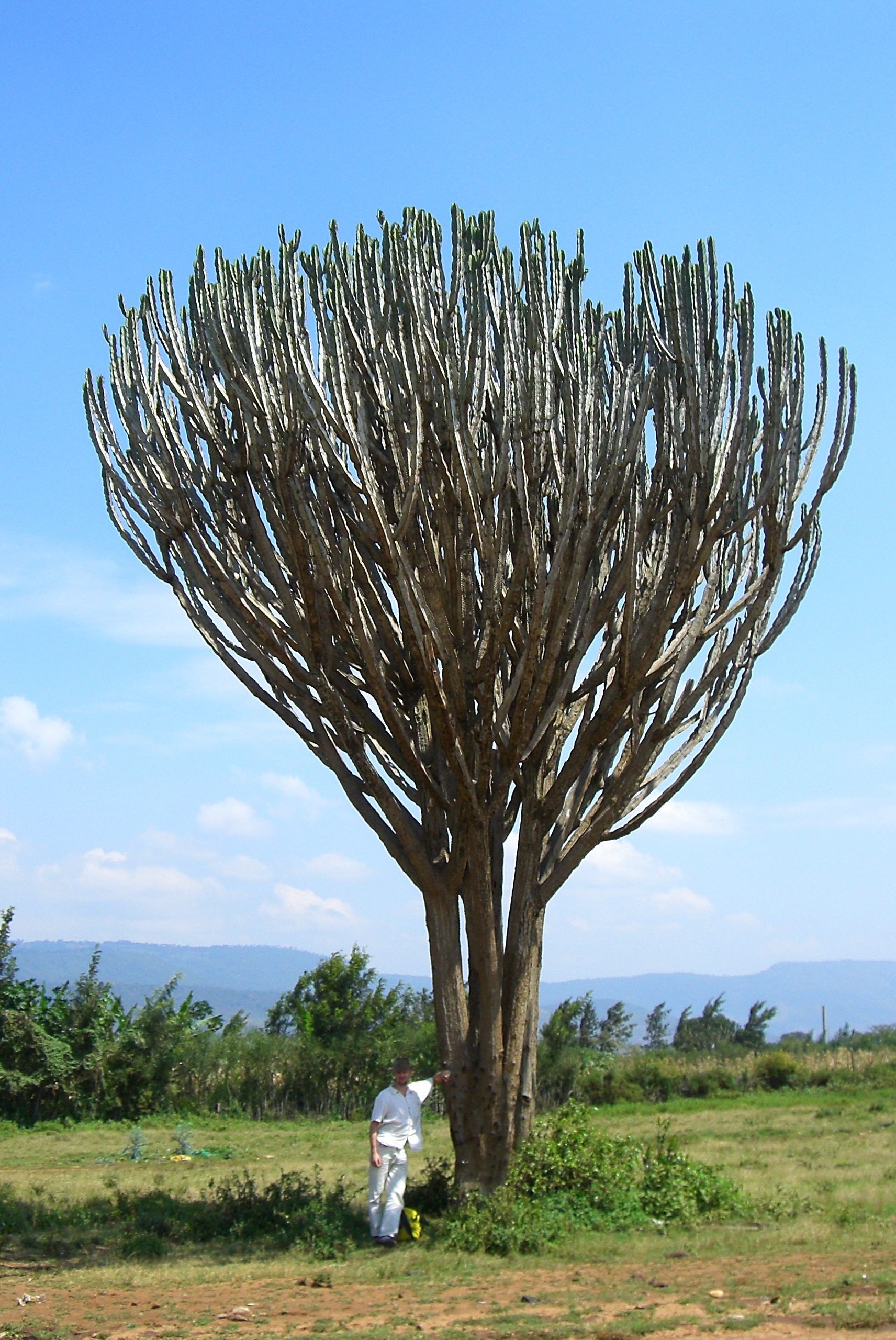 Euphorbiaceae, huge Euphorbia in the Kenyan hightlands